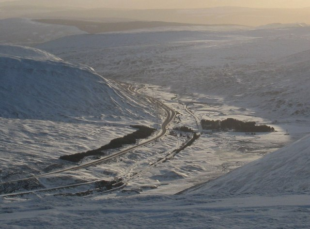 Drumochter Pass As photographed from the top of A'Mharconaich